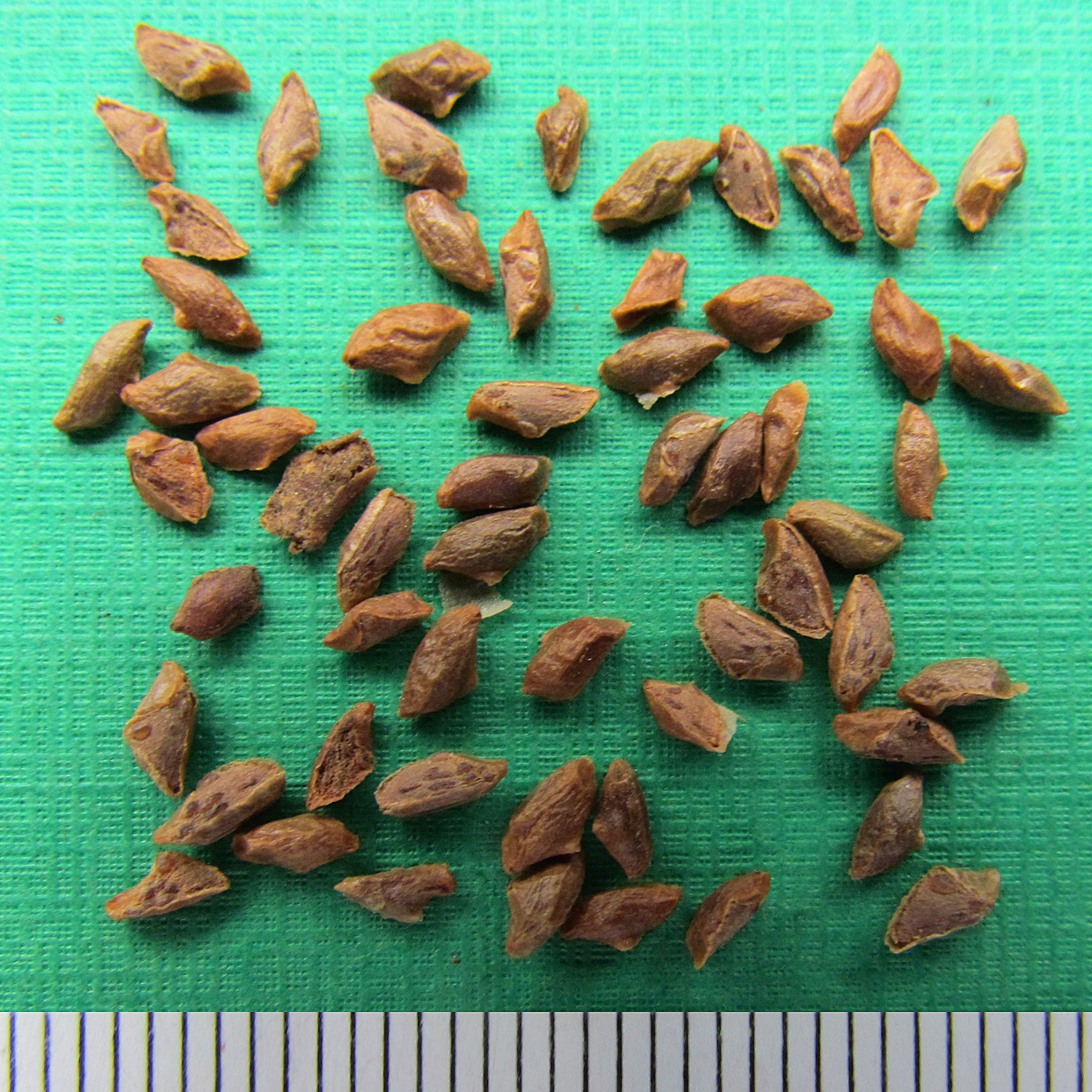 Tsuga canadensis seeds